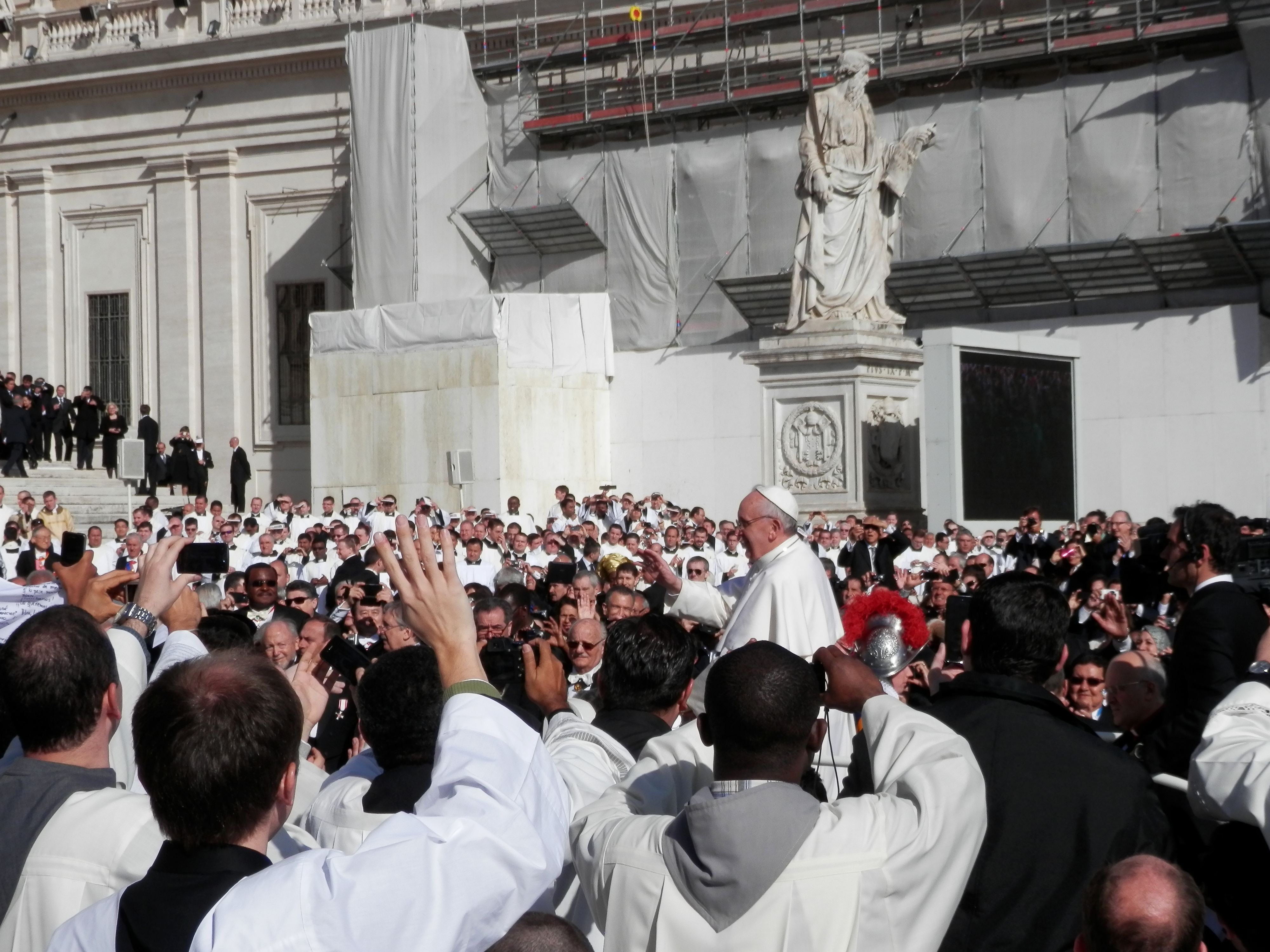 Inauguration of Pope's Francis Ministry, 19 March 2013